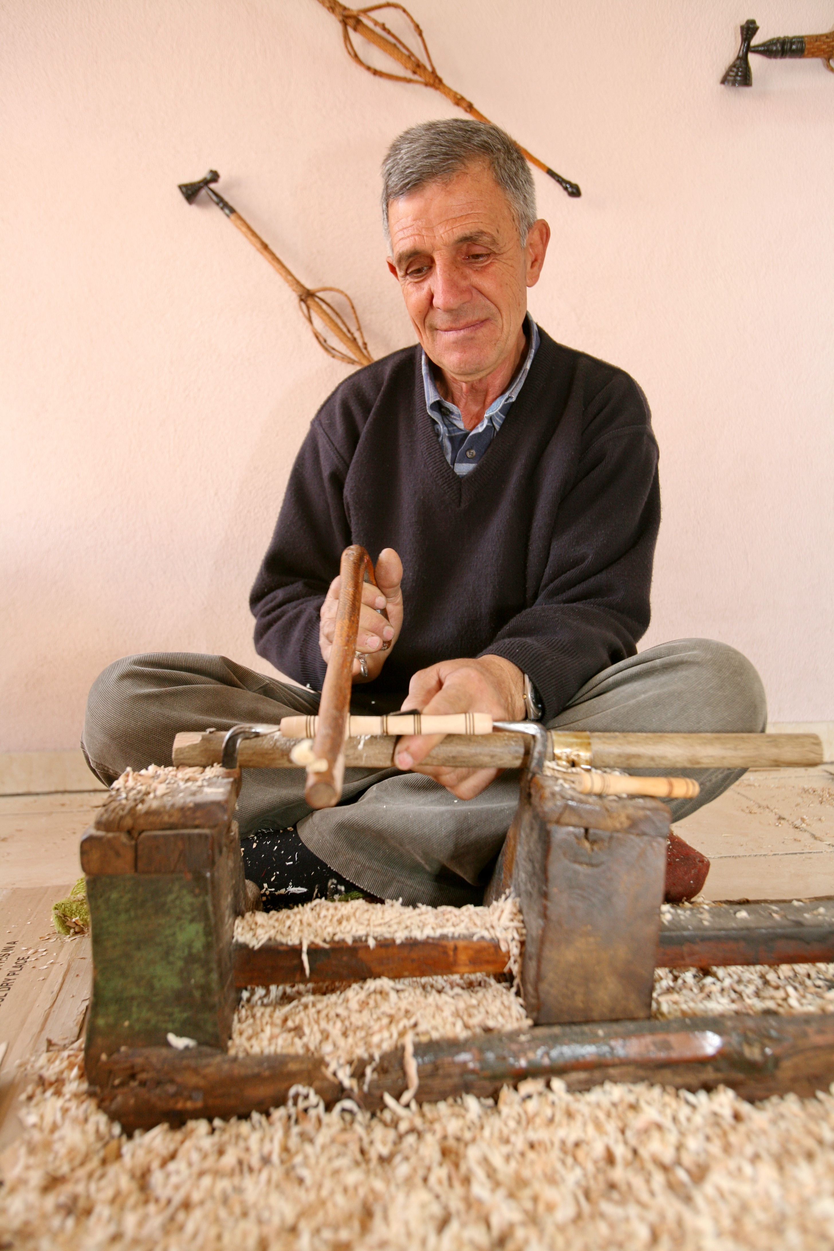 Pipe maker